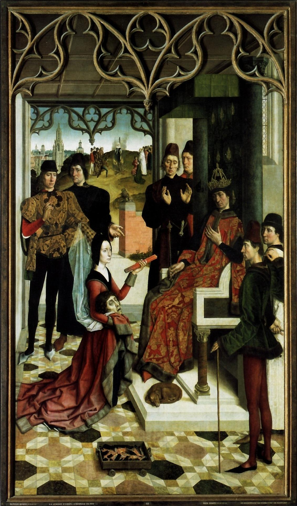 The Ordeal by Fire before Emperor Otto III, a painting by Dirk Bouts, painted 1470/75 (Musée Royal des Beaux-Arts, Brussels). The picture shows a legendary tale related to Otto III (980–1002): A man should have broken the marriage with Otto's wife, wherefor the ruler had him beheaded. The widow proved to the contrary: in one hand she held the severed head of her husband, in the other—a red-hot iron. Attempted translation of the above German description.Notice: (Saint) Richardis is not the woman before Otto but the nun in flames in the far back.